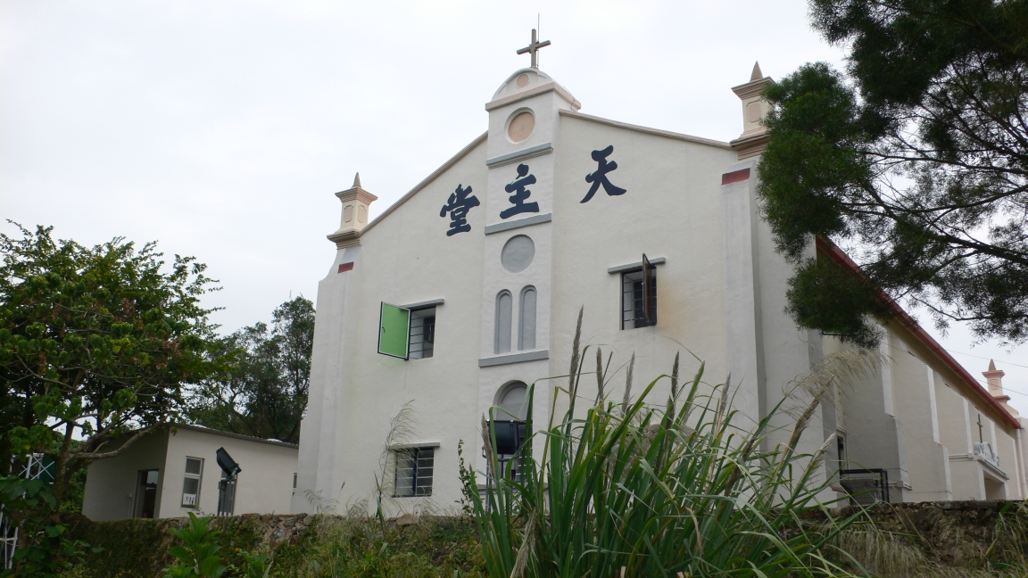 St Joseph's Chapel in Yim Tin Tsai, an outlying island of Hong Kong